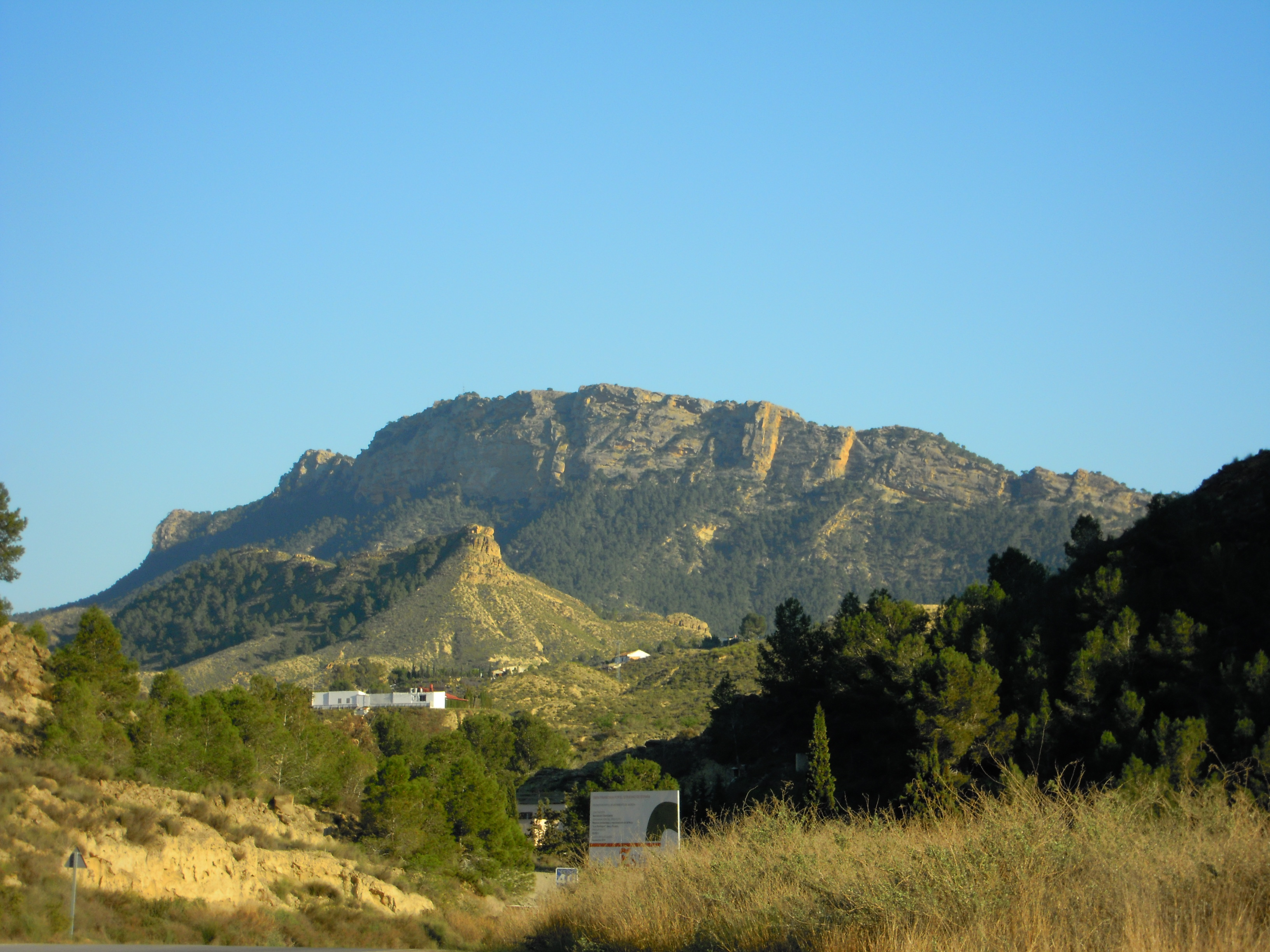 Columbares (646 m), highest mountain in Puerto del Garruchal, Murcia